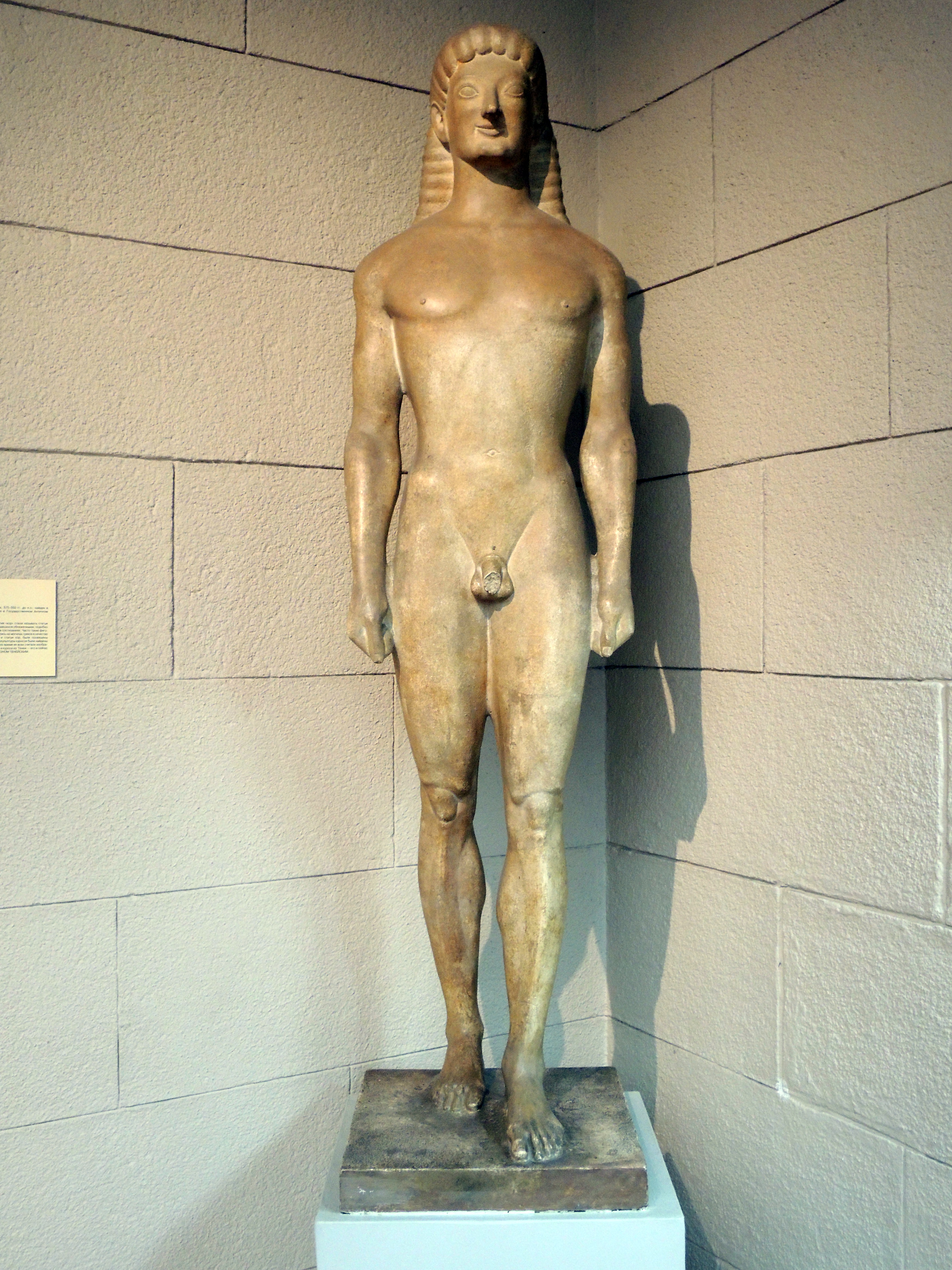 Cast of the Kouros of Tenea (formerly Apollo of Tenea) in the Pushkin Museum. Apollo Tim.